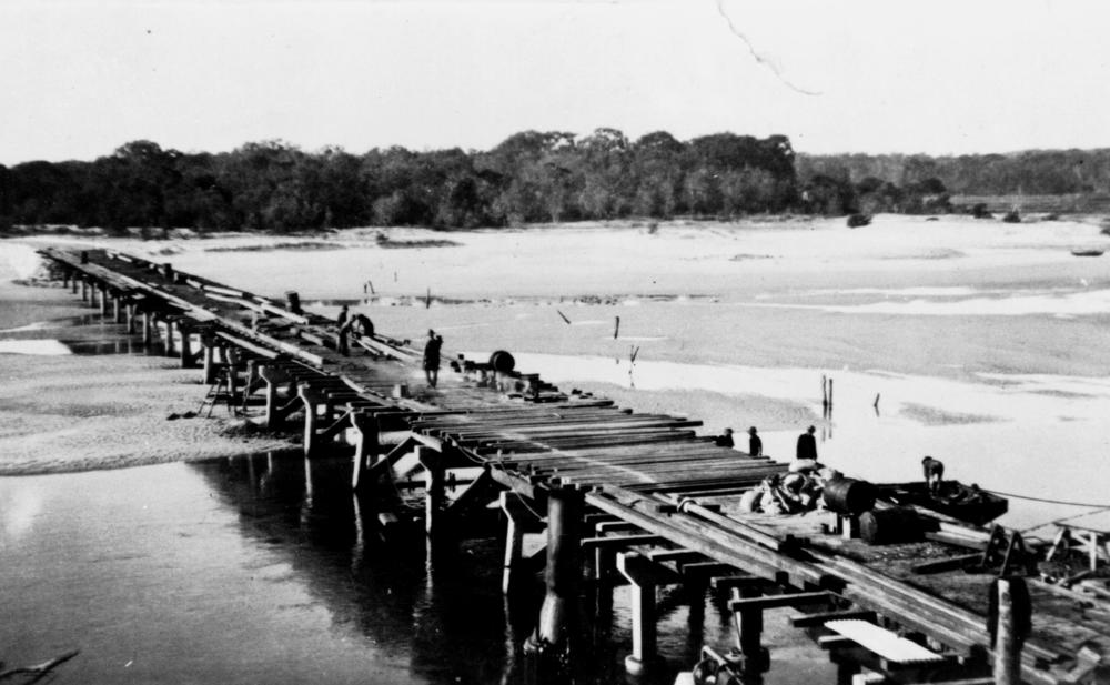 Tallebudgera Creek Bridge, Burleigh Heads, 1926 View of the Tallebudgera Creek Bridge during construction.